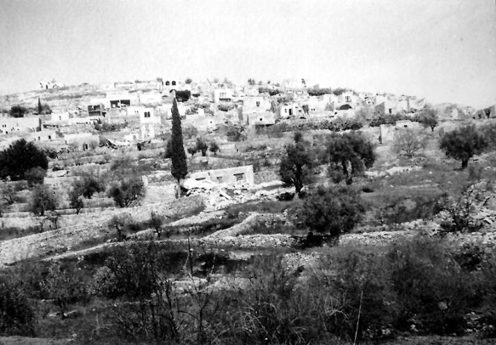 A view of the arab village of Qalunya, in the Judean Mountains, west of Jerusalem